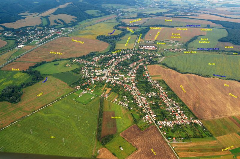 Drienov, municipality in Prešov District in eastern Slovakia